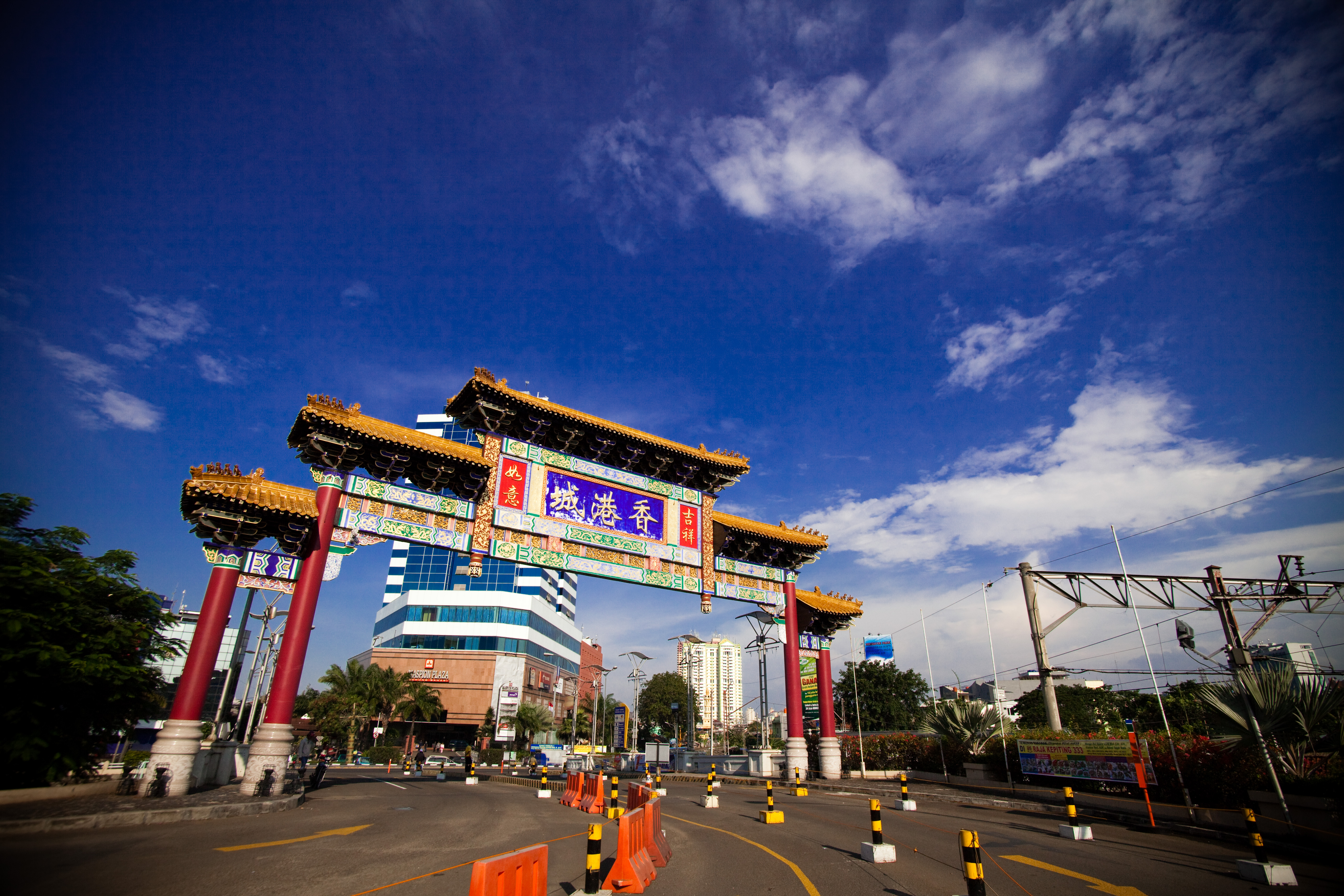 Chinese paifang at Mangga Dua Square, in Jakarta's Mangga Dua district